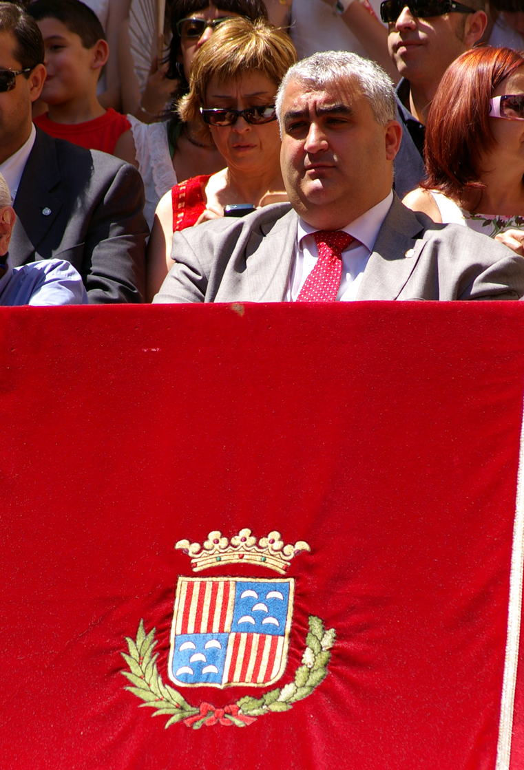 Juli Gendrau Farguell, Mayor of Berga (Catalonia).